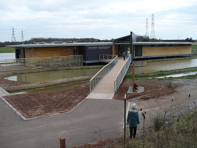 Entrance to Newport Wetlands Visitor Centre The visitor centre run by the RSPB opened in March 2008.